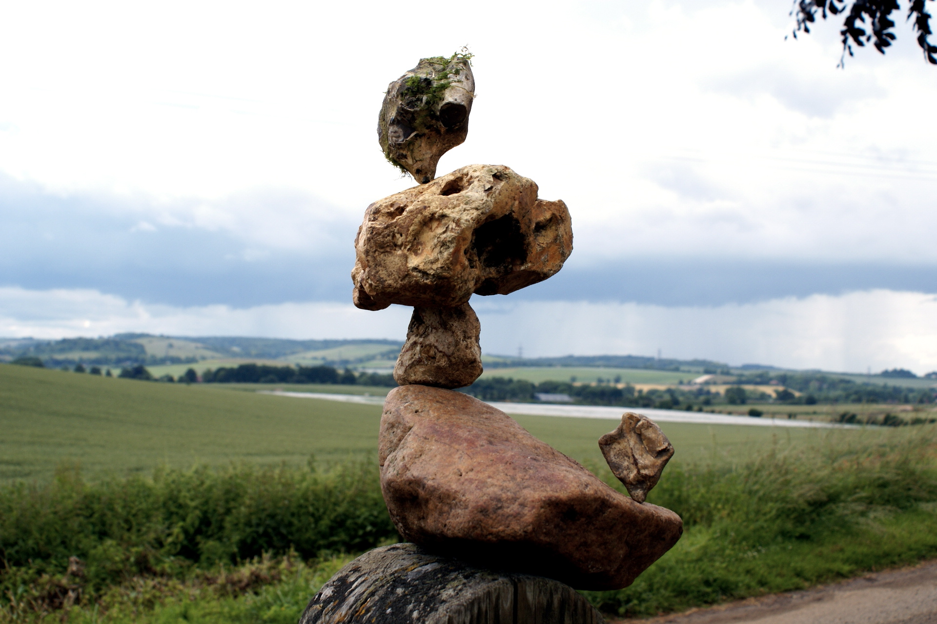 Balanced by Lila Higgins June 2007